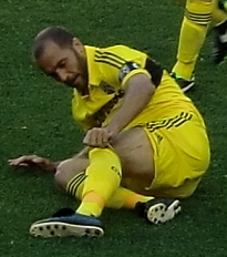 Federico Higuain on the pitch during a match with New York Red Bulls 2013